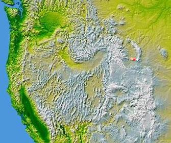 Bridger Mountains in Wyoming ©2004 Matthew Trump